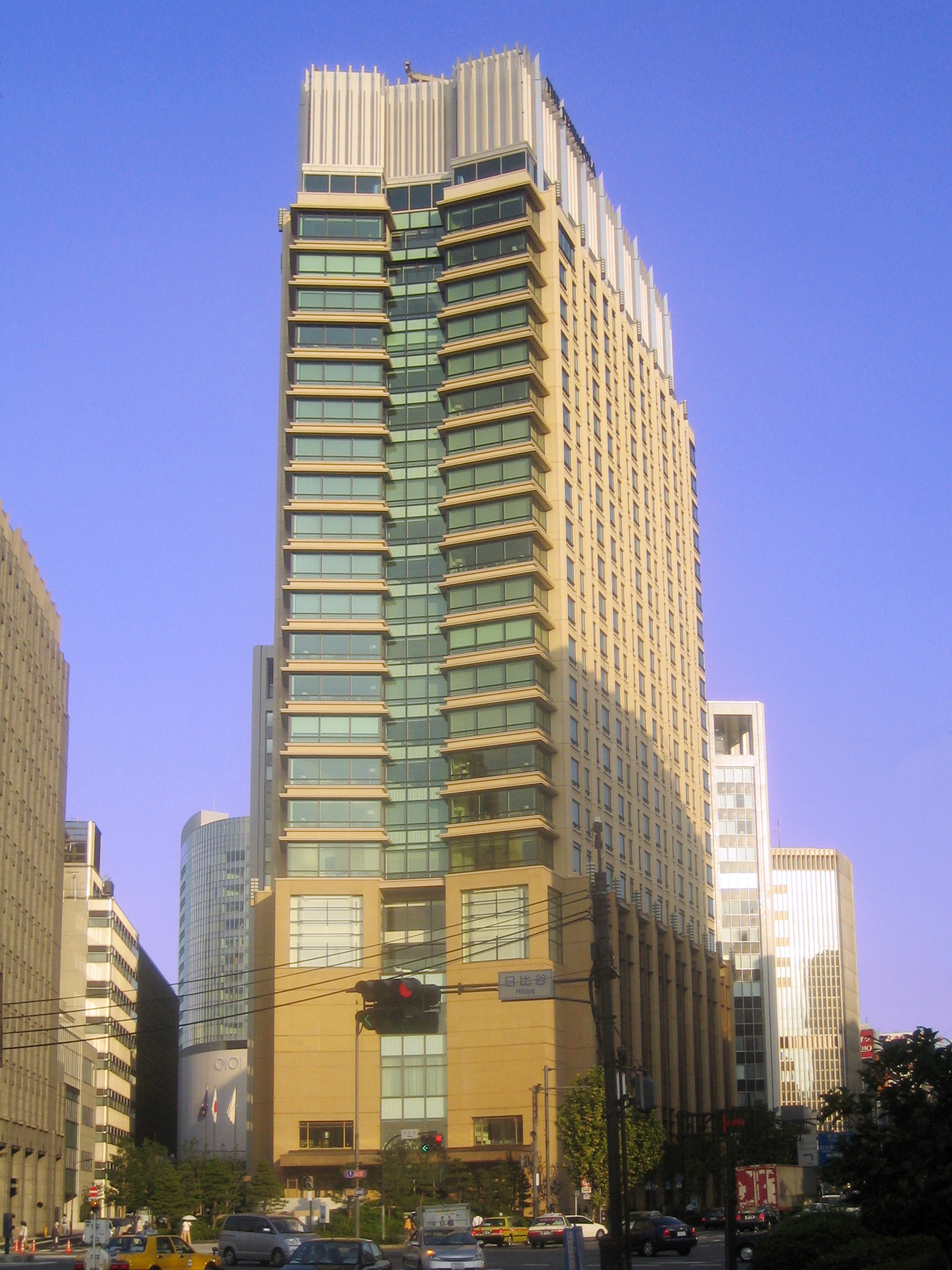 The Peninsula Tokyo (ザ・ペニンシュラ東京), at Yurakucho, Chiyoda, Tokyo, Japan